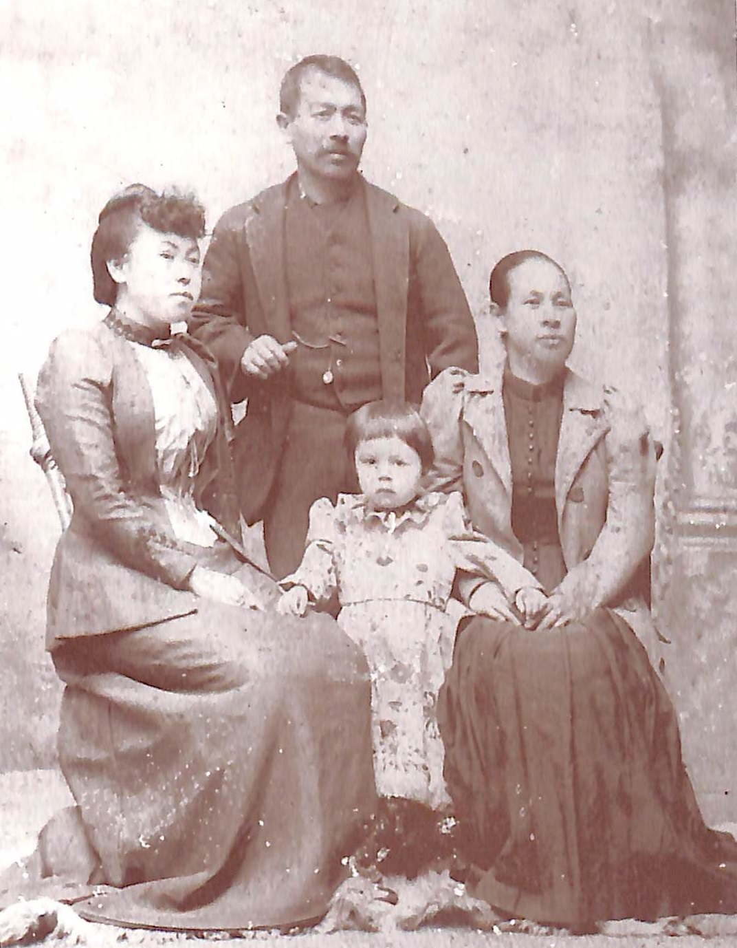 This is a photo of Riki Ito who tried hard to immigrate to USA from Japan. She is in the left most of the picture. The girl who is in the center of the picture is Riki's daughter Moyo. Mr Kato is in center of the picture and Mrs Kato is in right most of it.